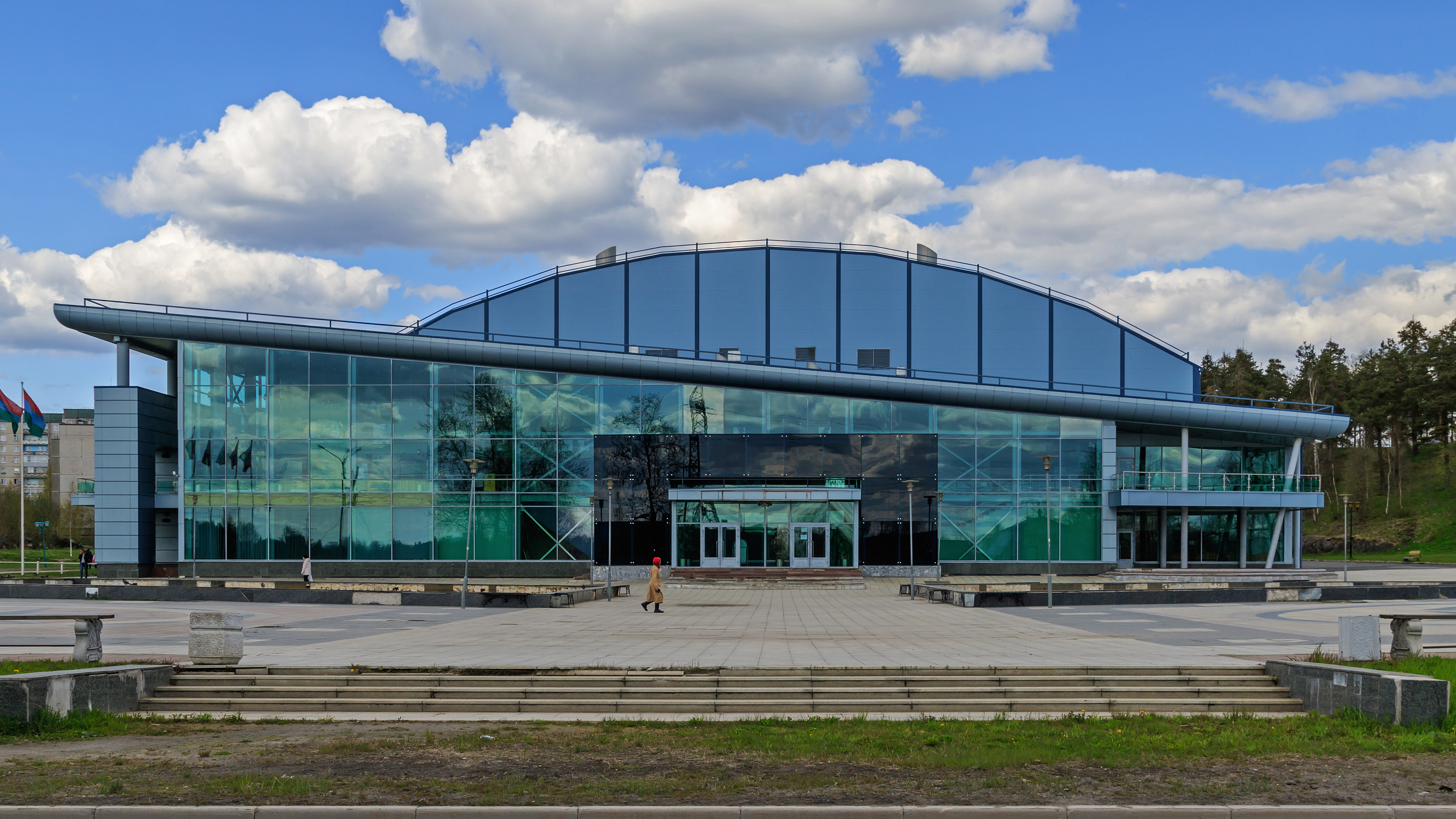 Ice Palace in Kondopoga, Republic of Karelia (Russia).